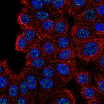 Evidence of the localization of C16orf71 to nuclear speckles of the nucleus. The expression of the protein is indicated by the green spots, where in situ hybridization occurred with antibodies.